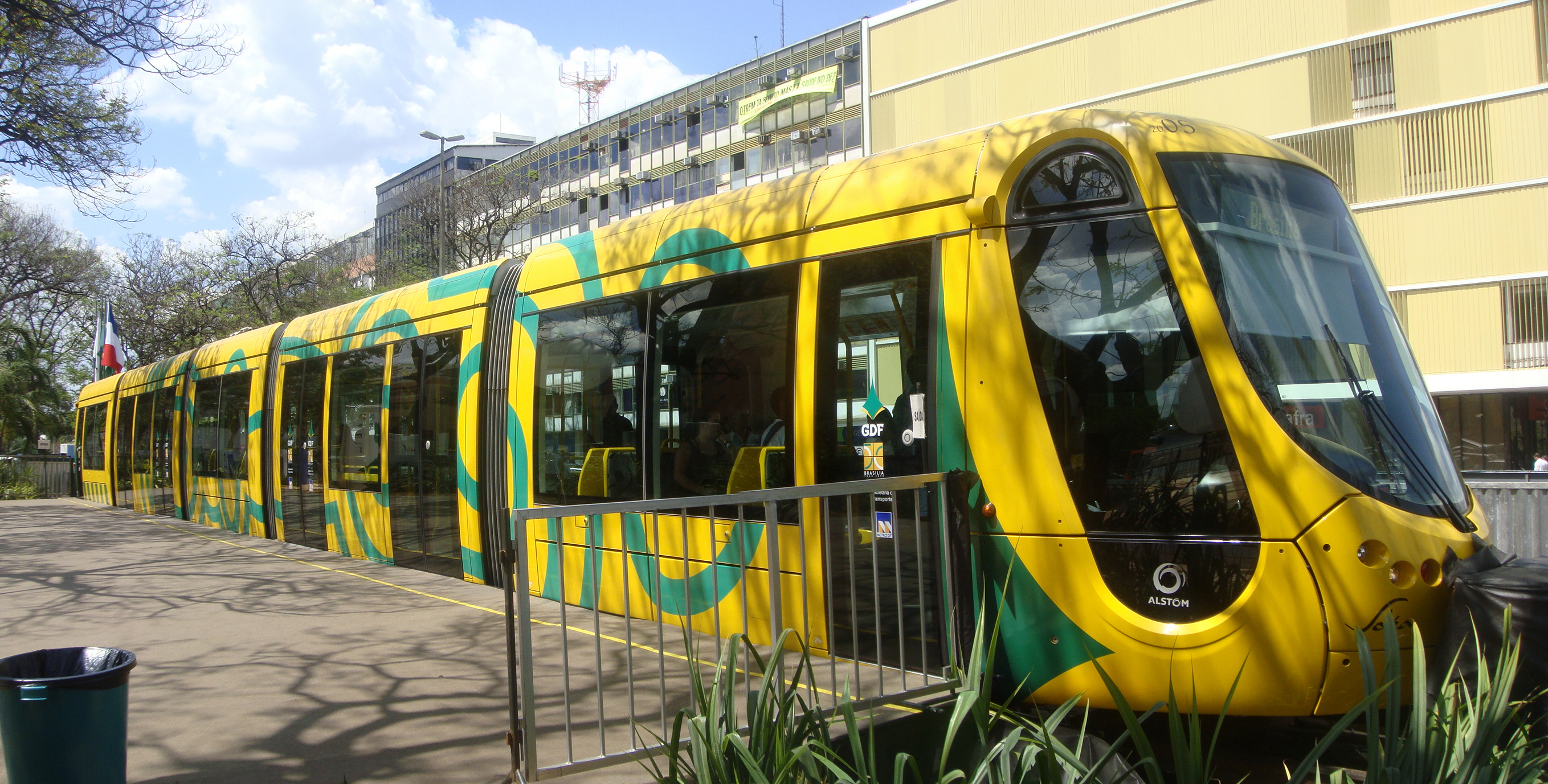 Tram (LRT) in exhibition in Brasilia, D.F., Brazil. The system will be implemented soon in the W3 Avenue, and it is called "Trêm Liviano (VLT) de Brasília". The tram is made by French manufacturer Alstom